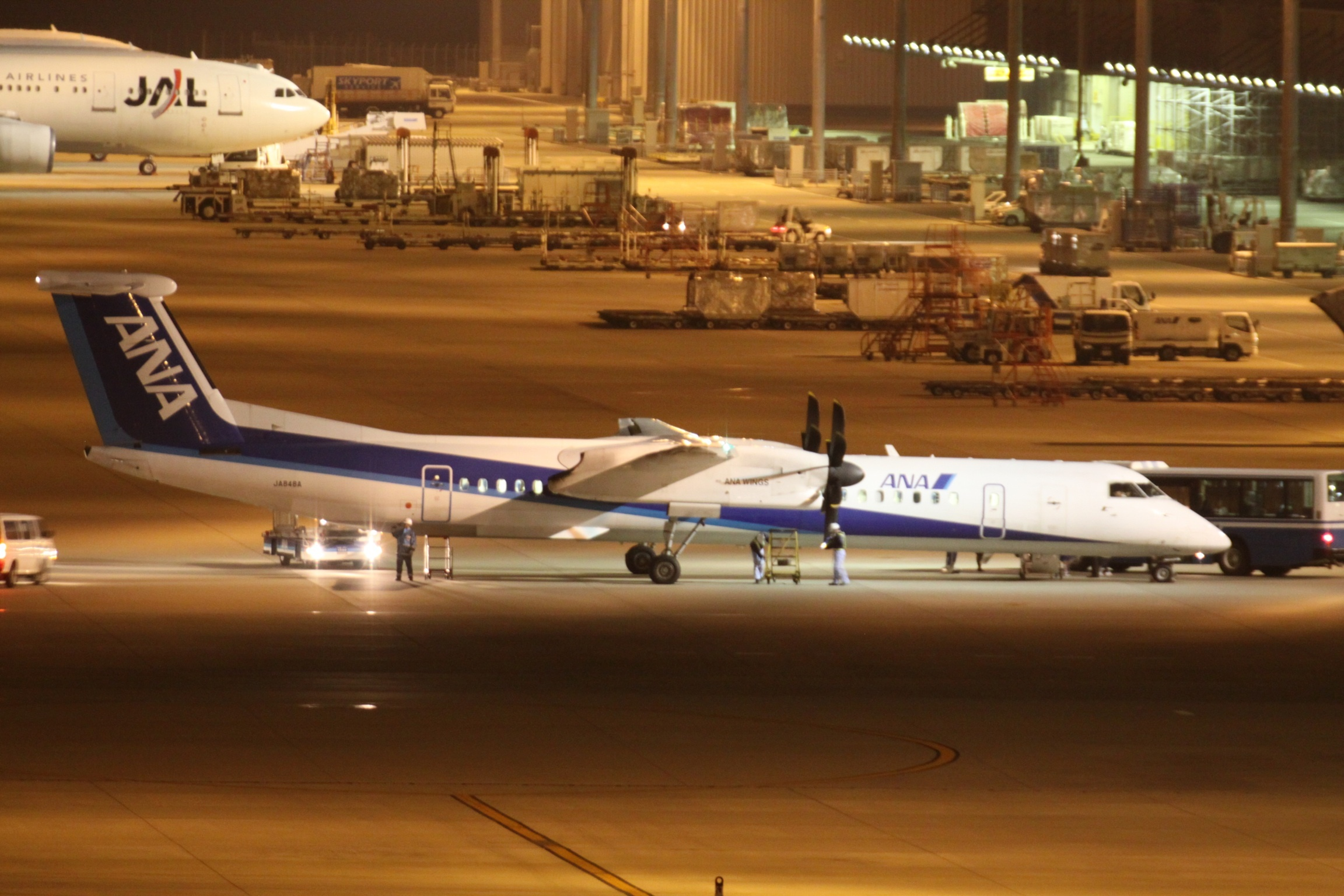 At Nagoya Chūbu Centrair International